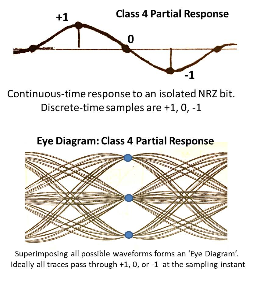 PRML is a signal-processing technique used on Hard Disk Drives (HDD) for data recovery. The analog continuous-time waveforms depict PR4 as used in early PRML channels